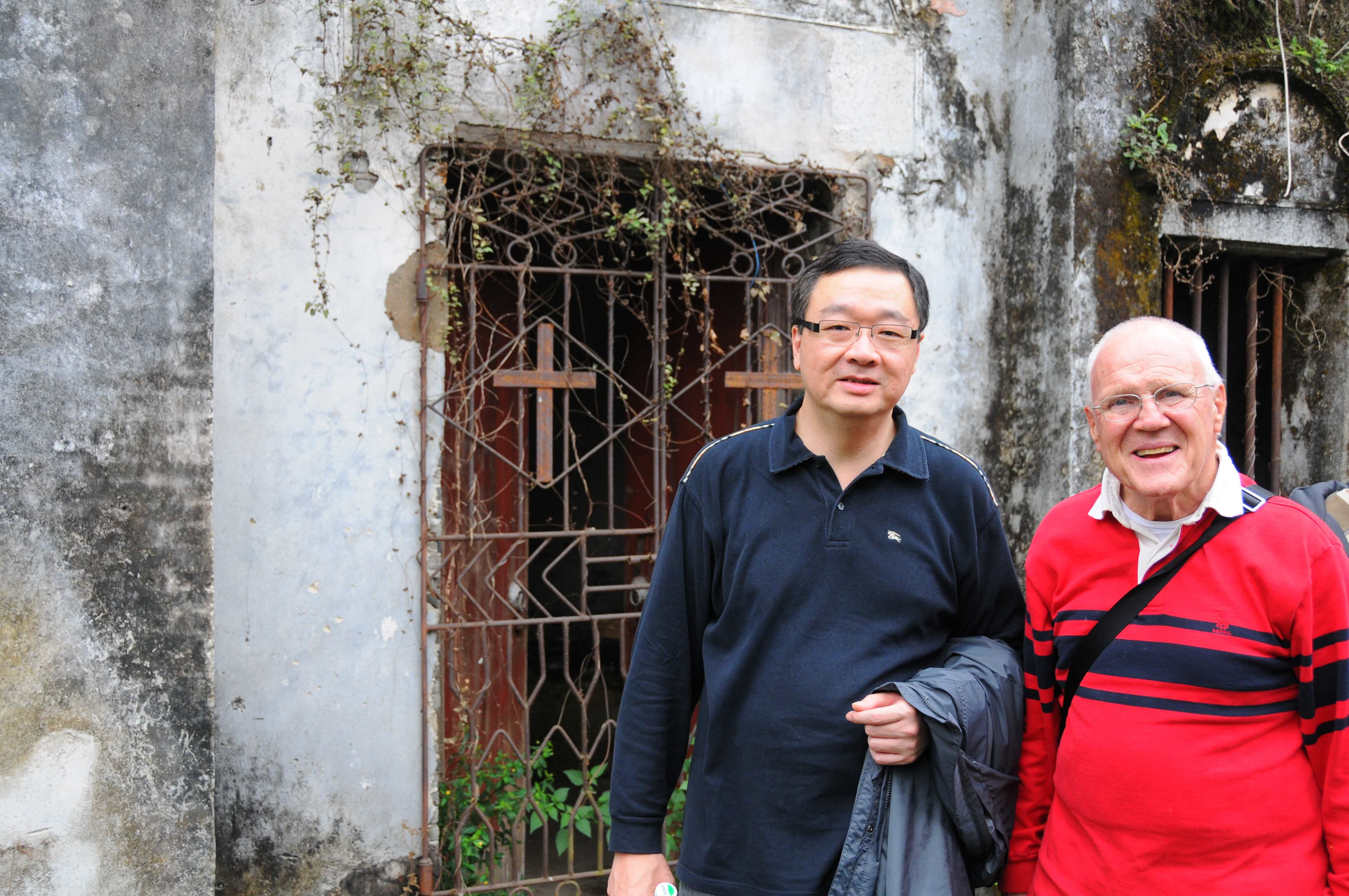 Fr Thomas A Peyton, a Maryknoller residing in Hong Kong, and Mr Martin Lai, principal of Maryknoll Secondary School in Hong Kong. Photo taken in front of the relics of a Maryknoll Fathers orphange in Taishan (previously known as Toishan), China on 20 March 2011